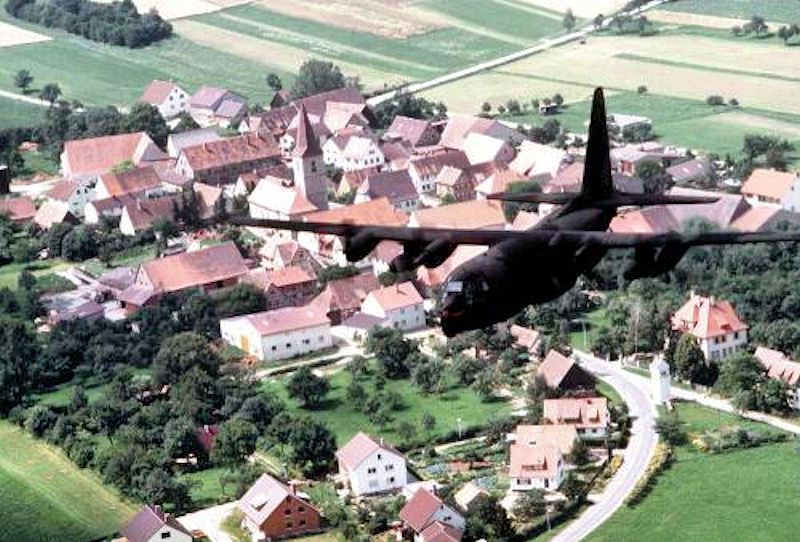 The 7th Special Operations Squadron (SOS) conducts training for special air operations and related activities. The unit also trains with Army Special Forces and Navy SEALS for unconventional warfare operations. High angle left front view of an MC-130E Hercules Combat Talon aircraft of the 7th SOS during a Fulton recovery mission